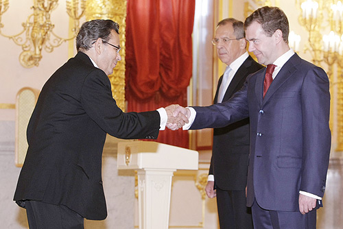 THE KREMLIN, MOSCOW. Presentation by foreign ambassadors of their letters of credence. Ambassador of the Republic of Costa Rica Manuel Antonio Barrantes Rodrigues presents his letter of credence to the President of Russia.